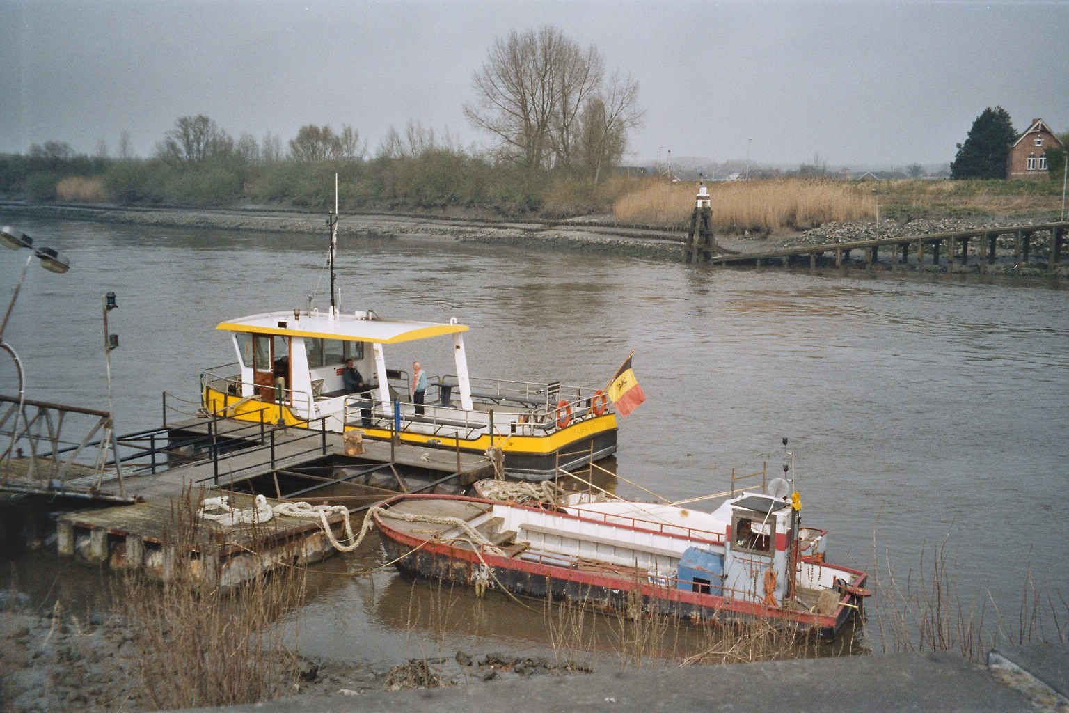 Two small (only for pedestrians and cyclists) ferries across Scheldt river in town Baasrode (Belgium), which is a part of Dendermonde munitipality. Previously, the small open boat (on the right) was used. Now it is replaced by bigger boat (on the photo the one with the flag)